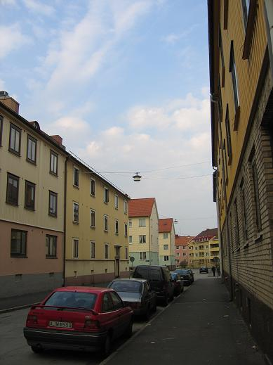 Kvillestaden